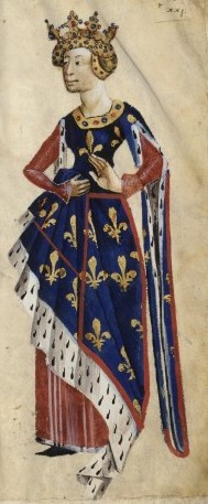 Isabella of Valois (1313-1388)